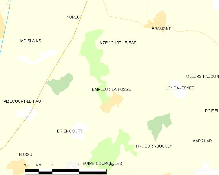 Map of French municipality Templeux-la-Fosse